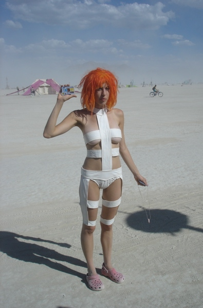 Burning Man 2007 - Young woman with a Leeloo costume holding multi-pass (movie The Fifth Element).